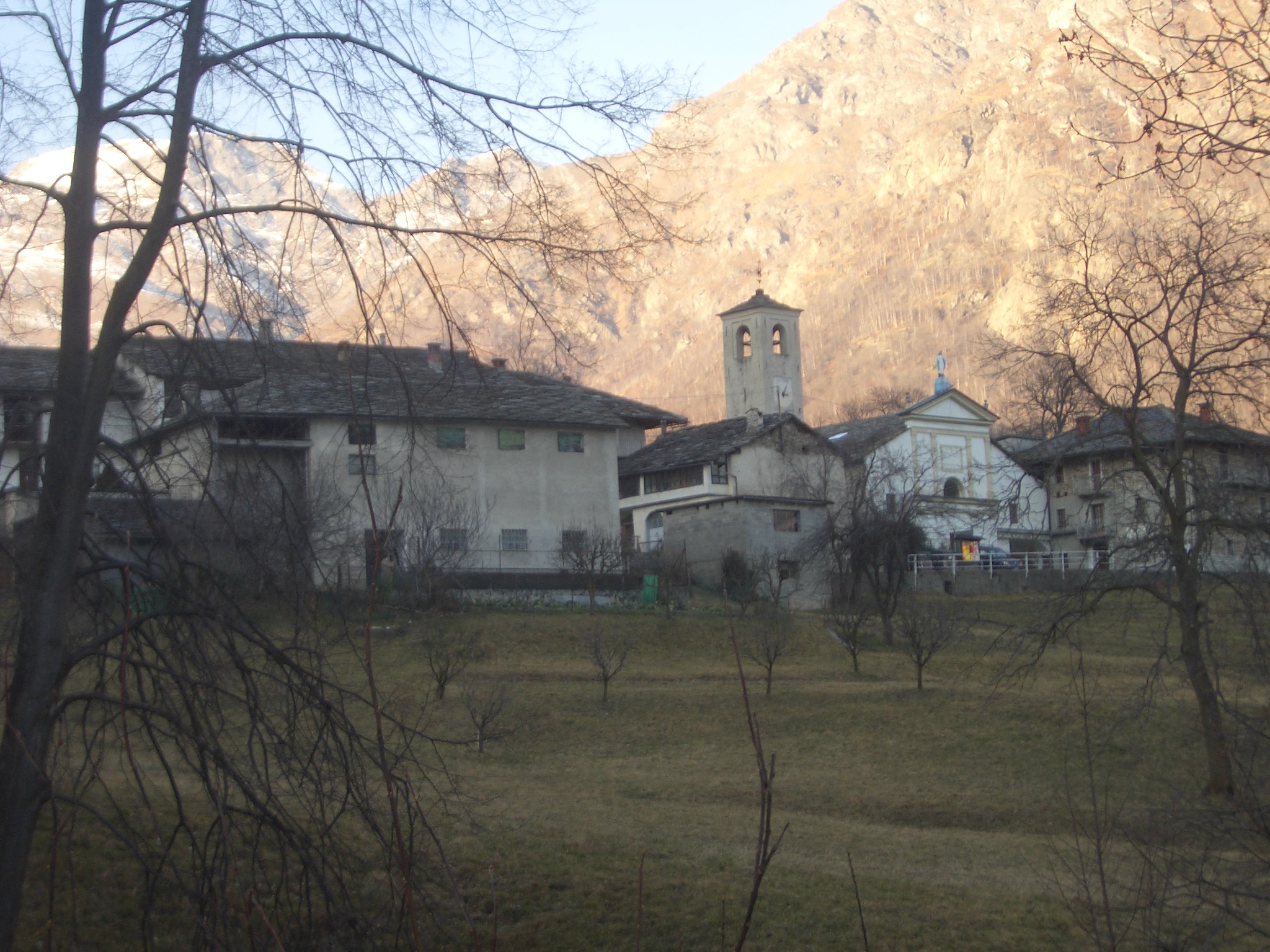 The village of Inverso, Trausella, Turin, Italy